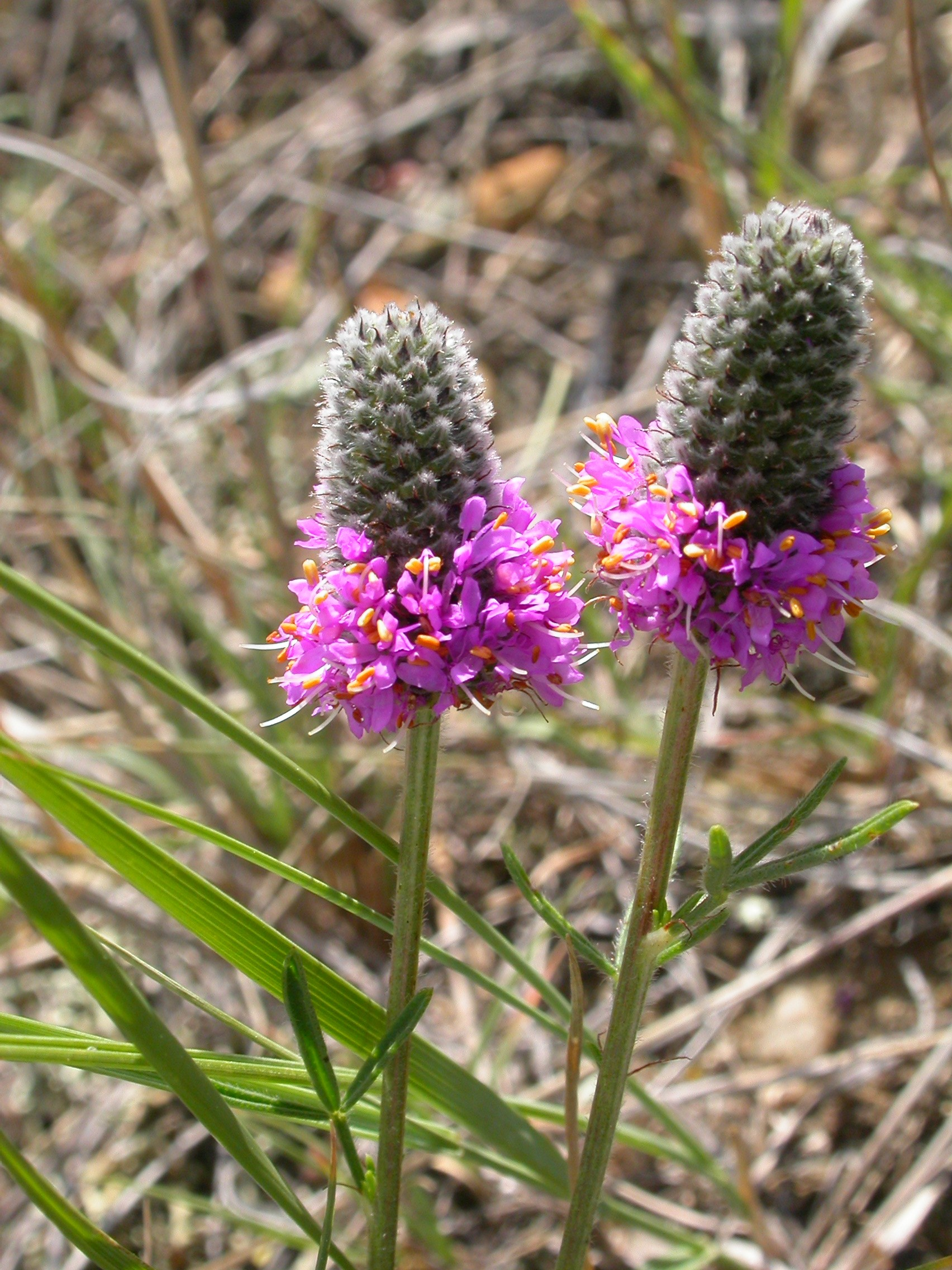 Dalea purpurea